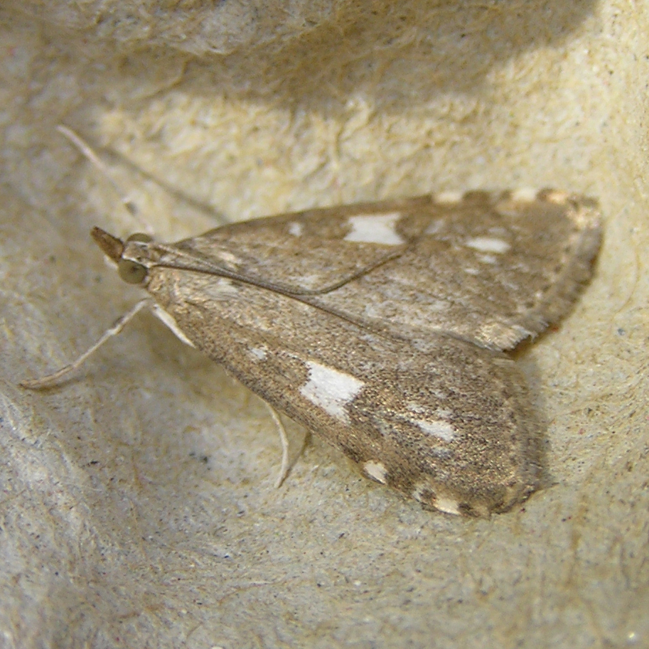 Udea olivalis (Goes, the Netherlands)